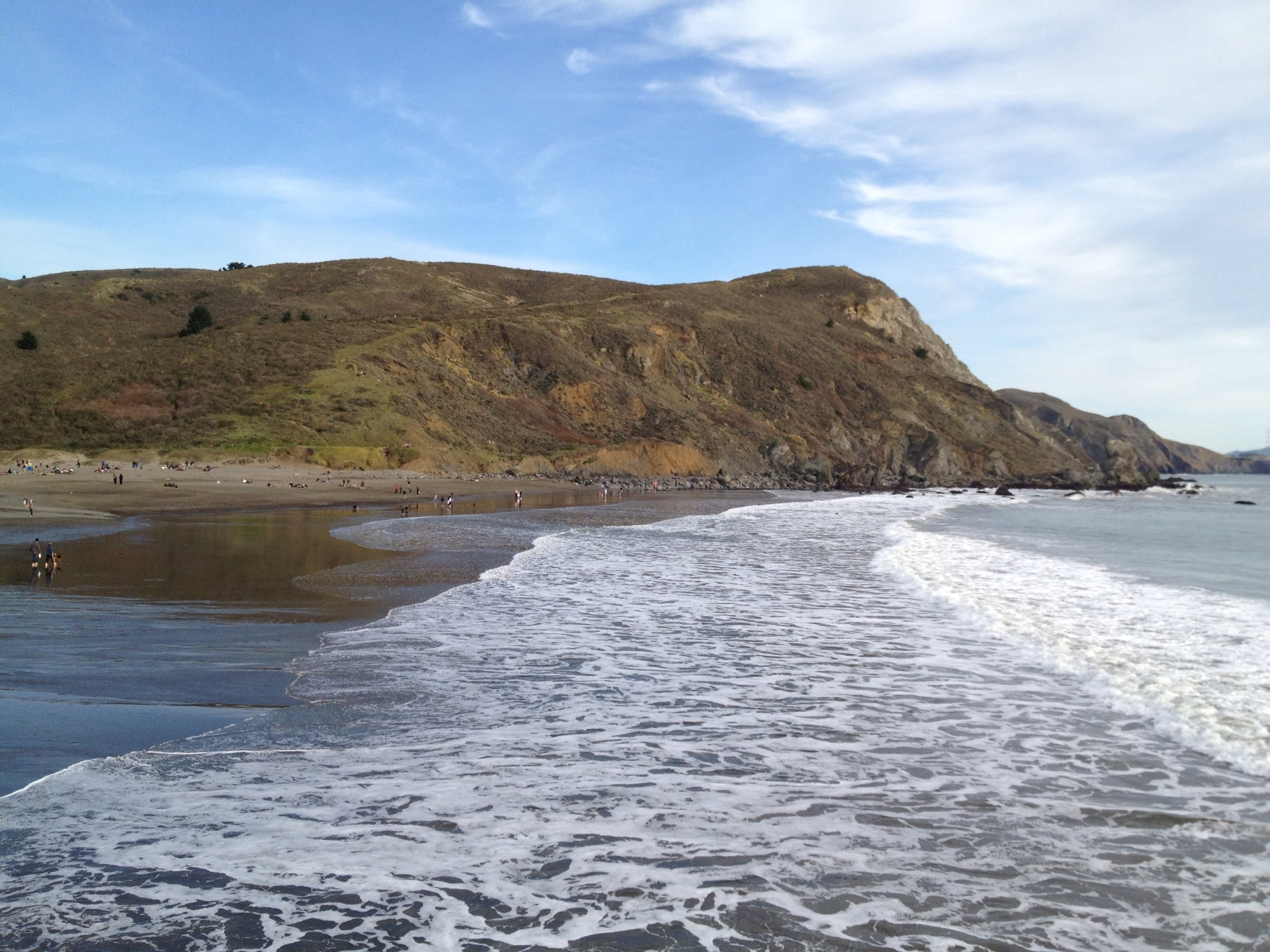 Waves on Muir Beach — at the northern terminus of the Marin Headlands. Within the Golden Gate National Recreation Area.